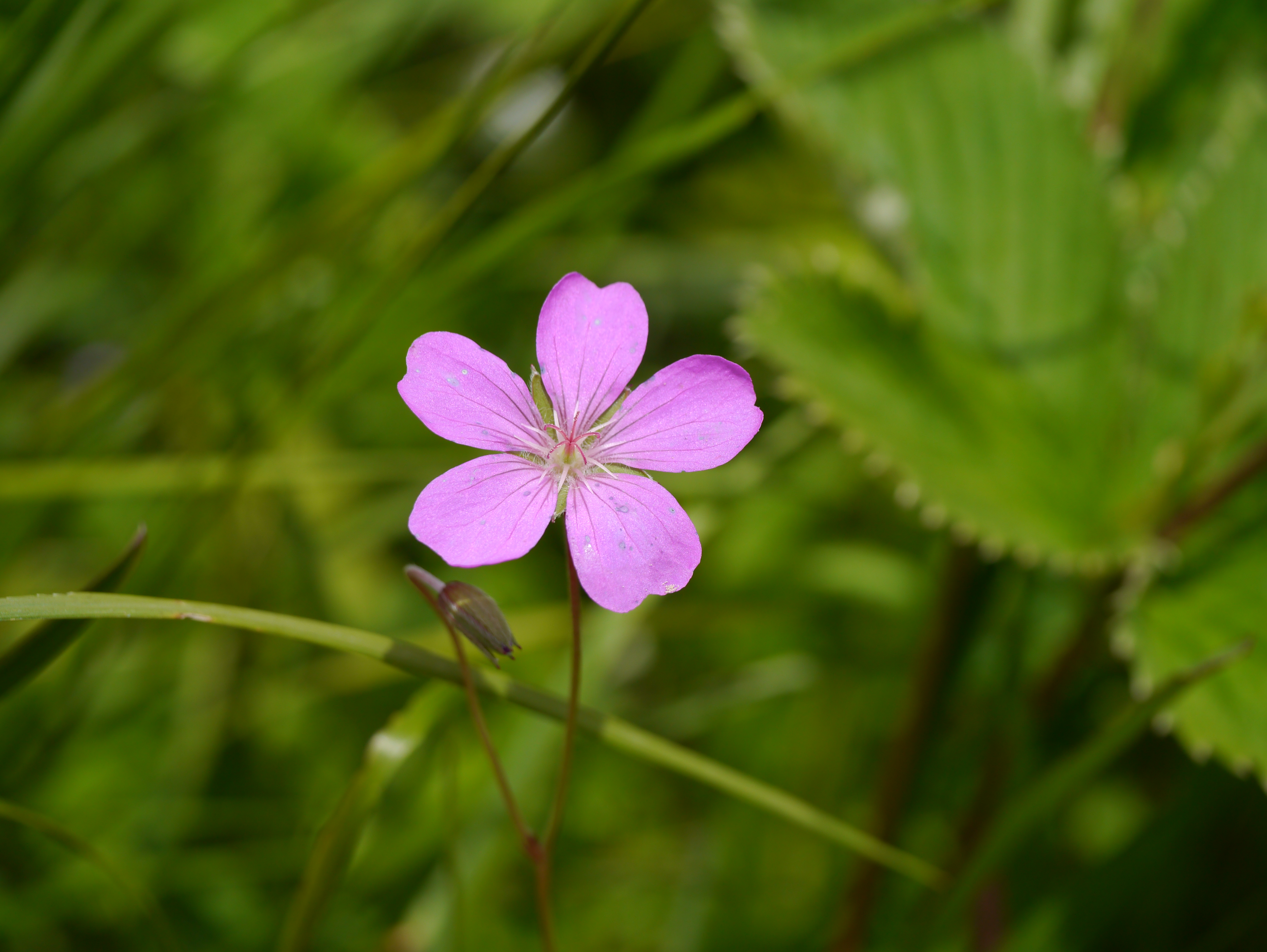 Geraniaceae (geranium family) » Geranium collinum Stephan ex Willd. jer-AY-nee-um -- from the Greek geranos, crane; referring to the beak-like fruit ... Dave's Botanary KOL-in-um -- hilly; grows on hills ... Dave's Botanary commonly known as: hill geranium • Kashmiri (Ladakhi): ལེགཏིན legkatin Native to: s & s-e Europe towards c Asia, n-w Himalaya References: Flowers of India • Flora of China • NPGS / GRIN